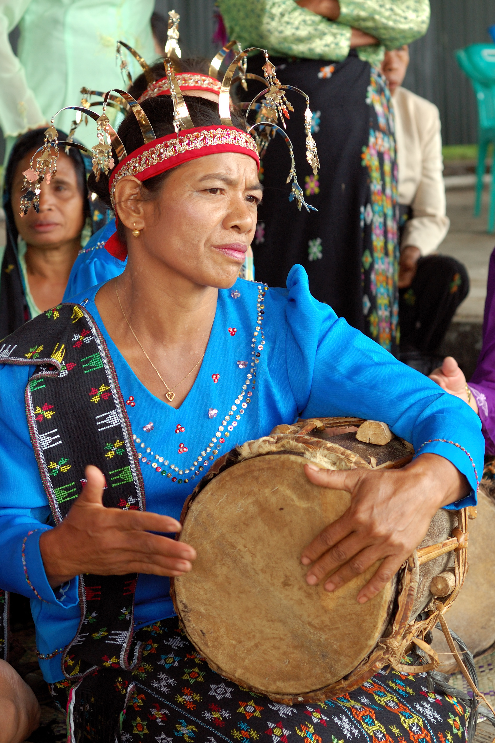 Musical accompaniment for the caci fights, Ruteng, Flores, Indonesia 2007.